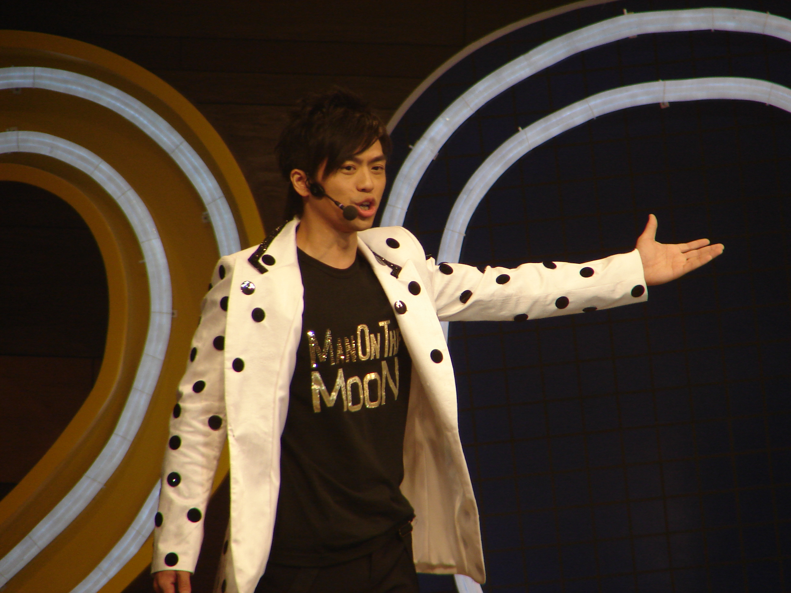 DJ Sammy Leung 森美@叱o宅903 - 2006 (01 January 2007)